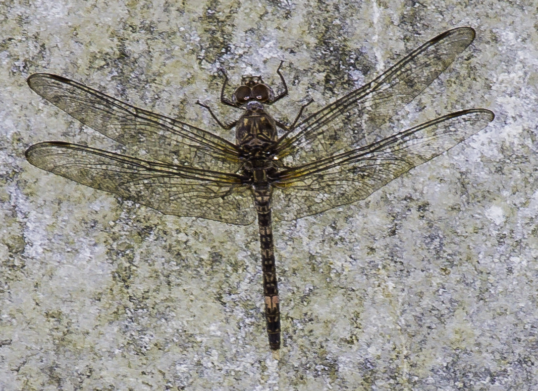 Bradinopyga conuta Horned Rockdweller male 1